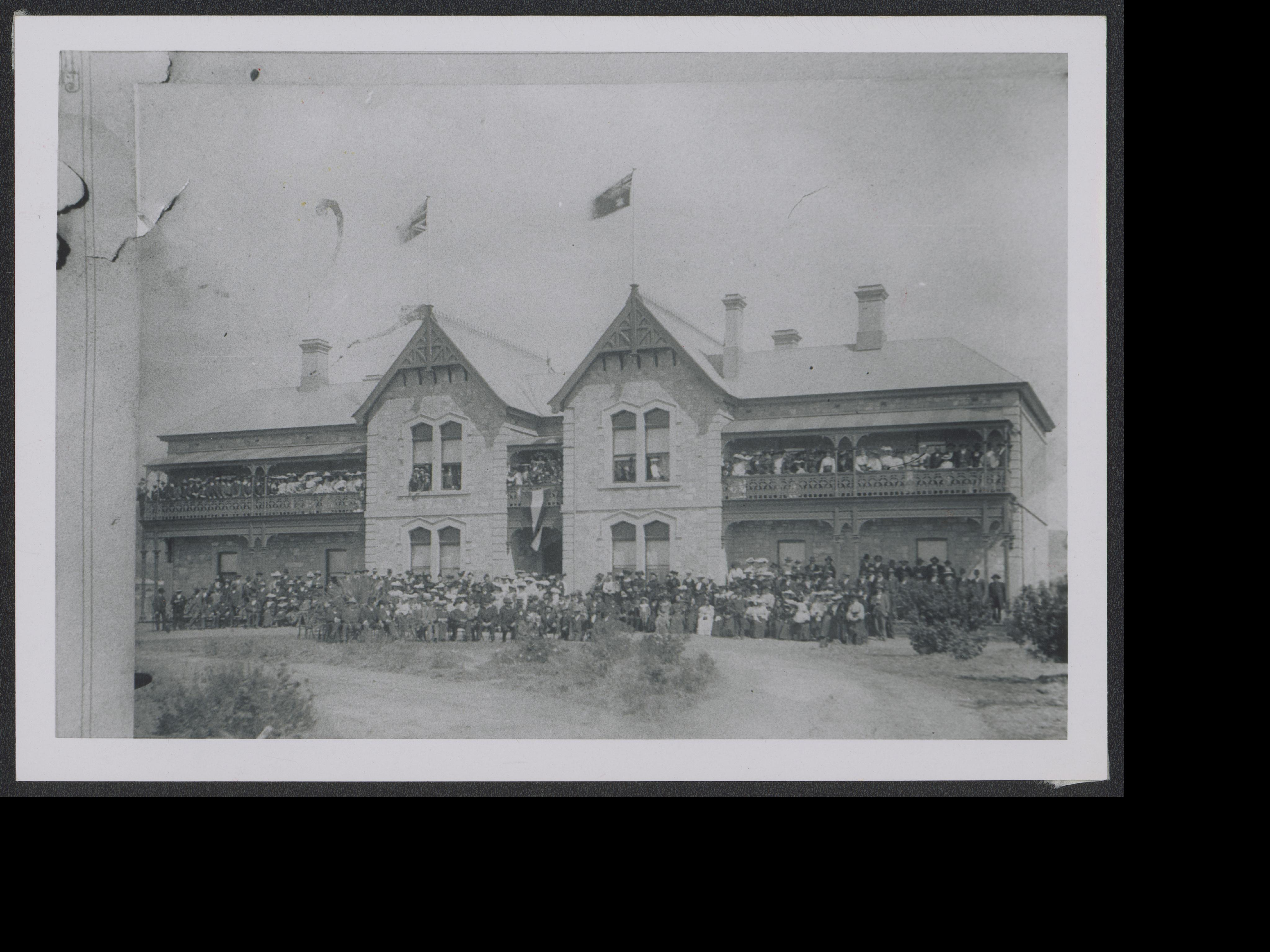 Building and students of Concordia College, 1905 - possibly on opening day.